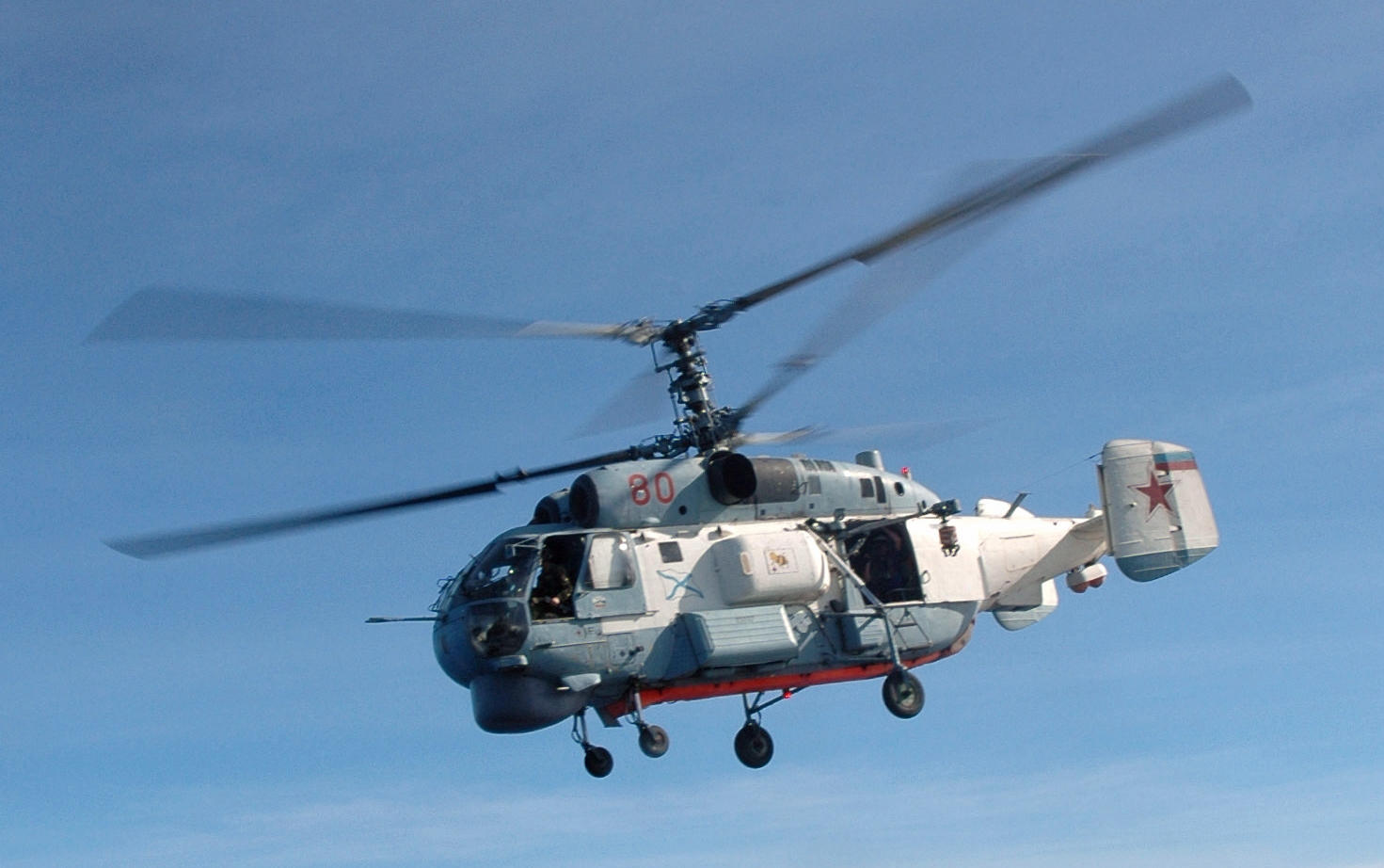 A Russian Federation Navy Ka-27PS (by NATO - "Helix D") helicopter takes off from the flight pad aboard the USN Ticonderoga Class Guided Missile Cruiser (Aegis), USS COWPENS (CG 63) during a joint Russian Federation Navy-US Navy (USN) humanitarian assistance and disaster relief exercise conducted in the waters near the US Territory of Guam.